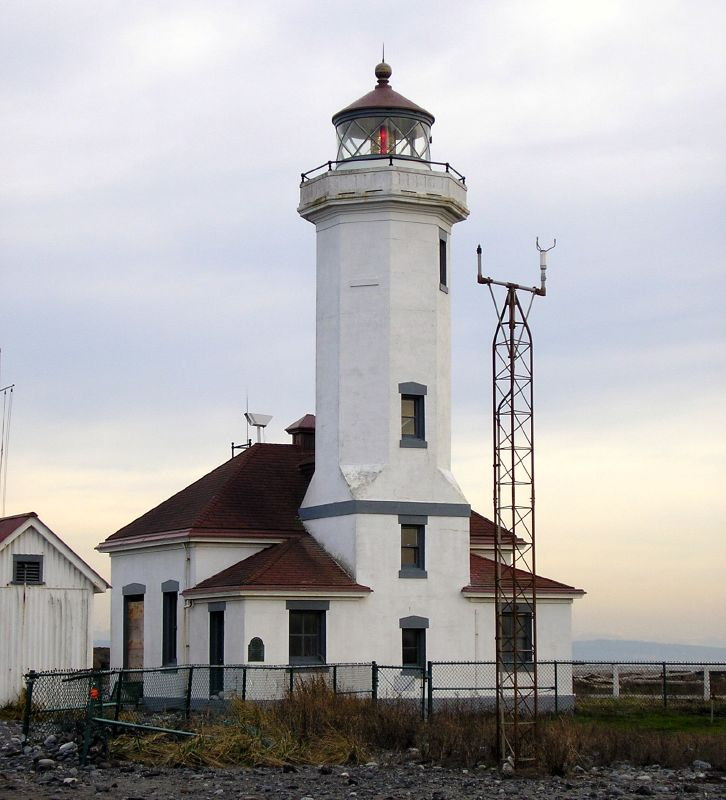 This is the Pt. Wilson Lighthouse in Ft. Worden Park, Port Townsend, Washington.